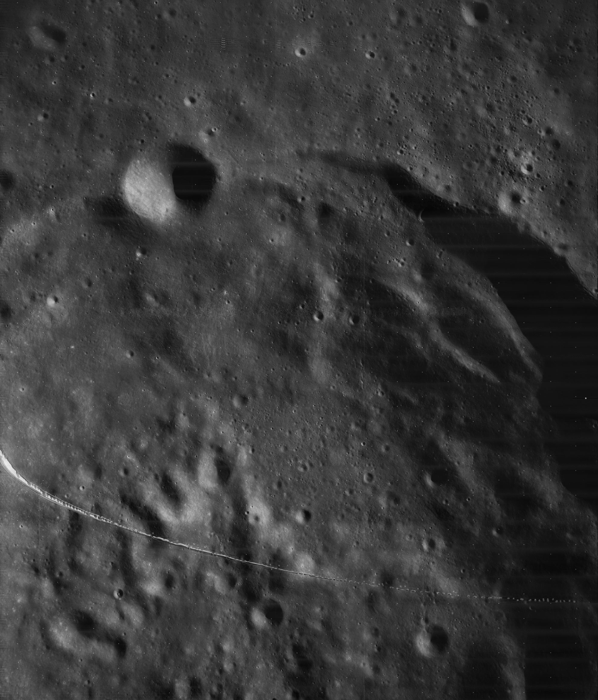 Interior of Delambre, on the moon. Streak at bottom is blemish on original.